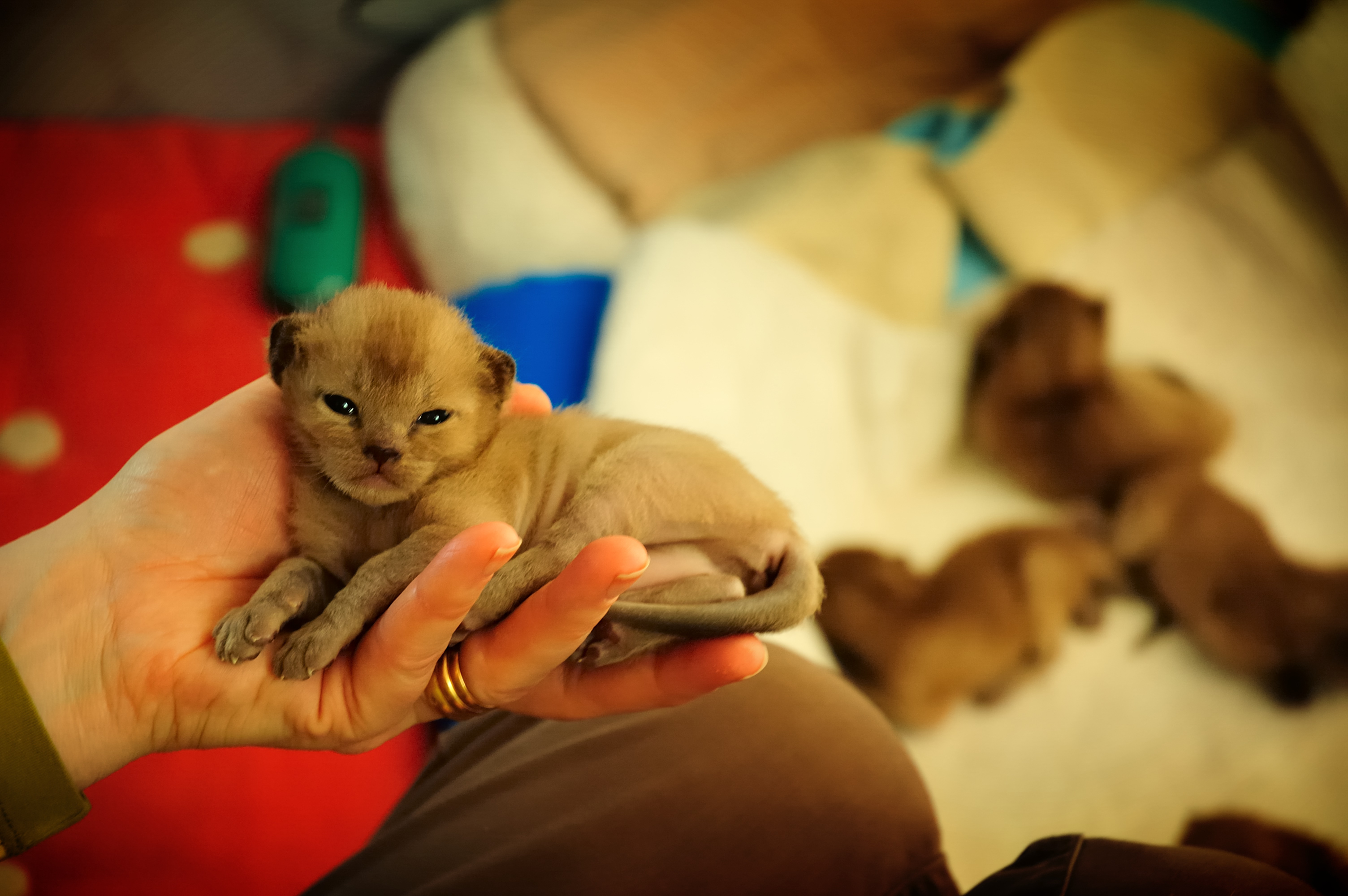 Hopefully this little girl will make her way into our flat this summer :-D She is a little brown European Burmese kitten, just two weeks old.